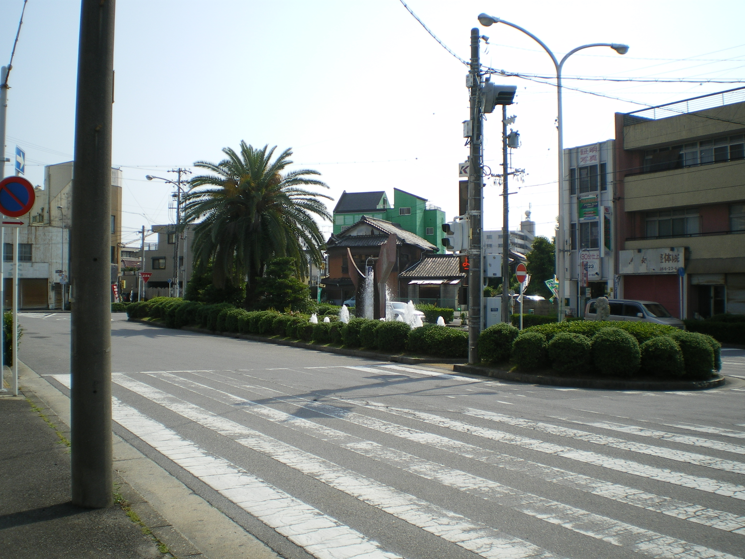 Nagoya Railroad Mikawa Line Kariyashi Station Plaza